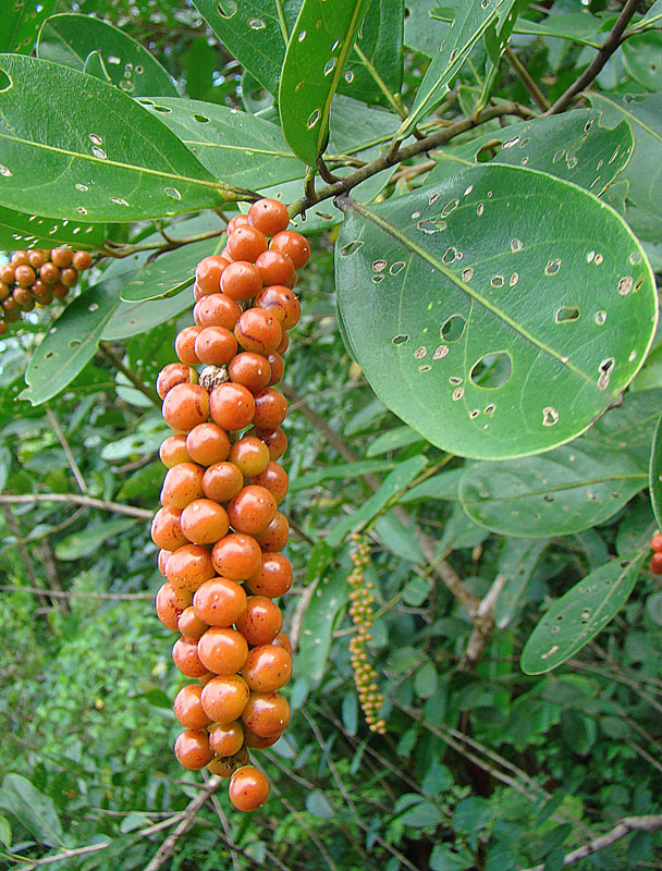 Fruit of the Pendula tree, native to Central America and the Caribbean. Photo from Isla Bastimentos, northwestern Panama. In context at